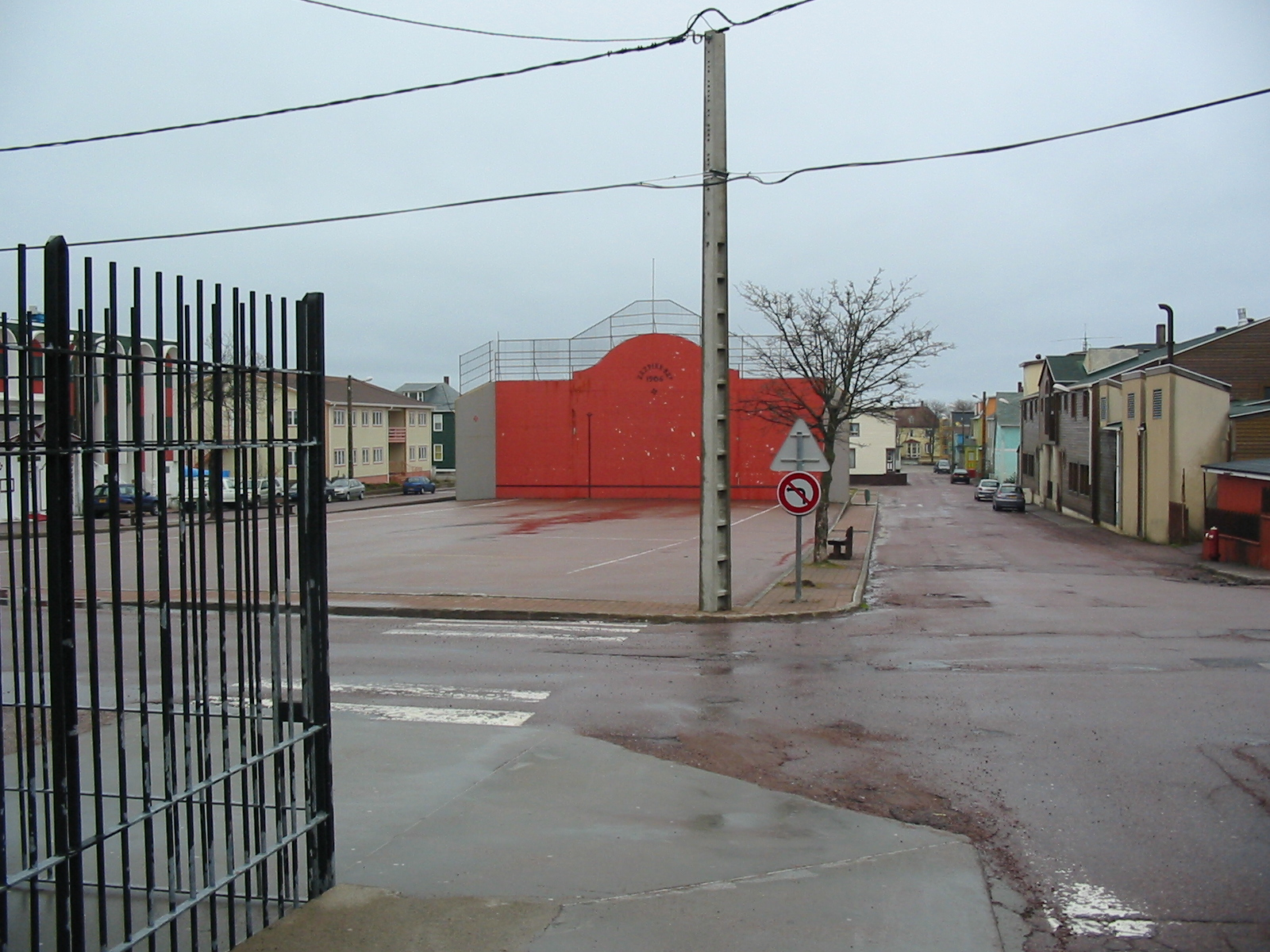 Fronton Zazpiak Bat - an arena for the traditional Basque sport of pelota in Saint Pierre; May 12, 2008.